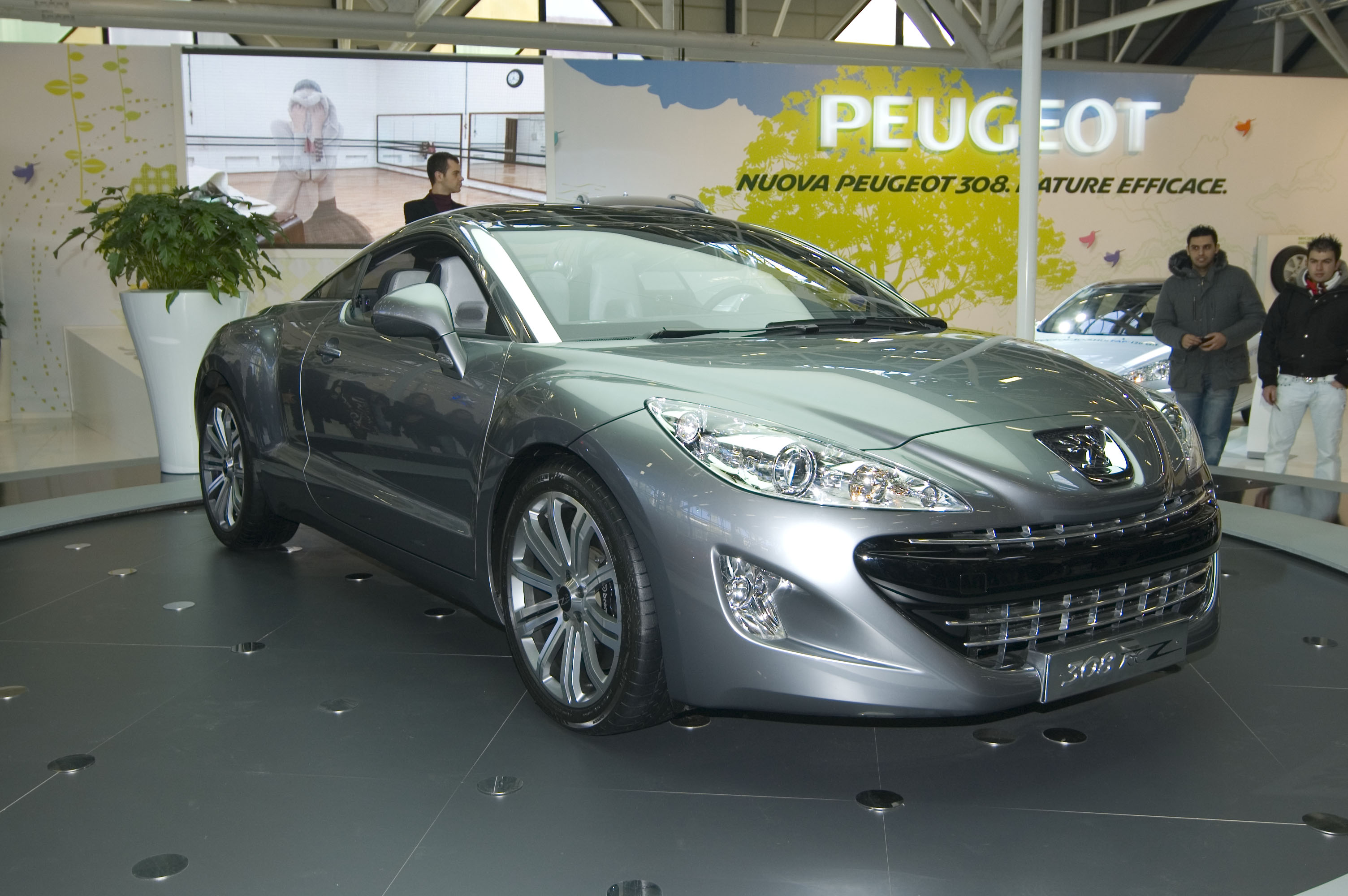 Motor Show 2007: Peugeot 308